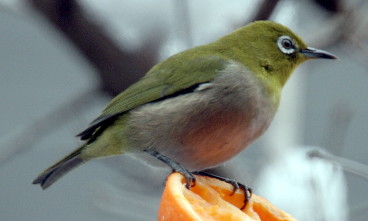 Japanese White-eye, Jan. 2006, Yokohama JAPAN ; Japanese description:メジロ 2006年1月 神奈川県横浜市 (投稿者自身による撮影)